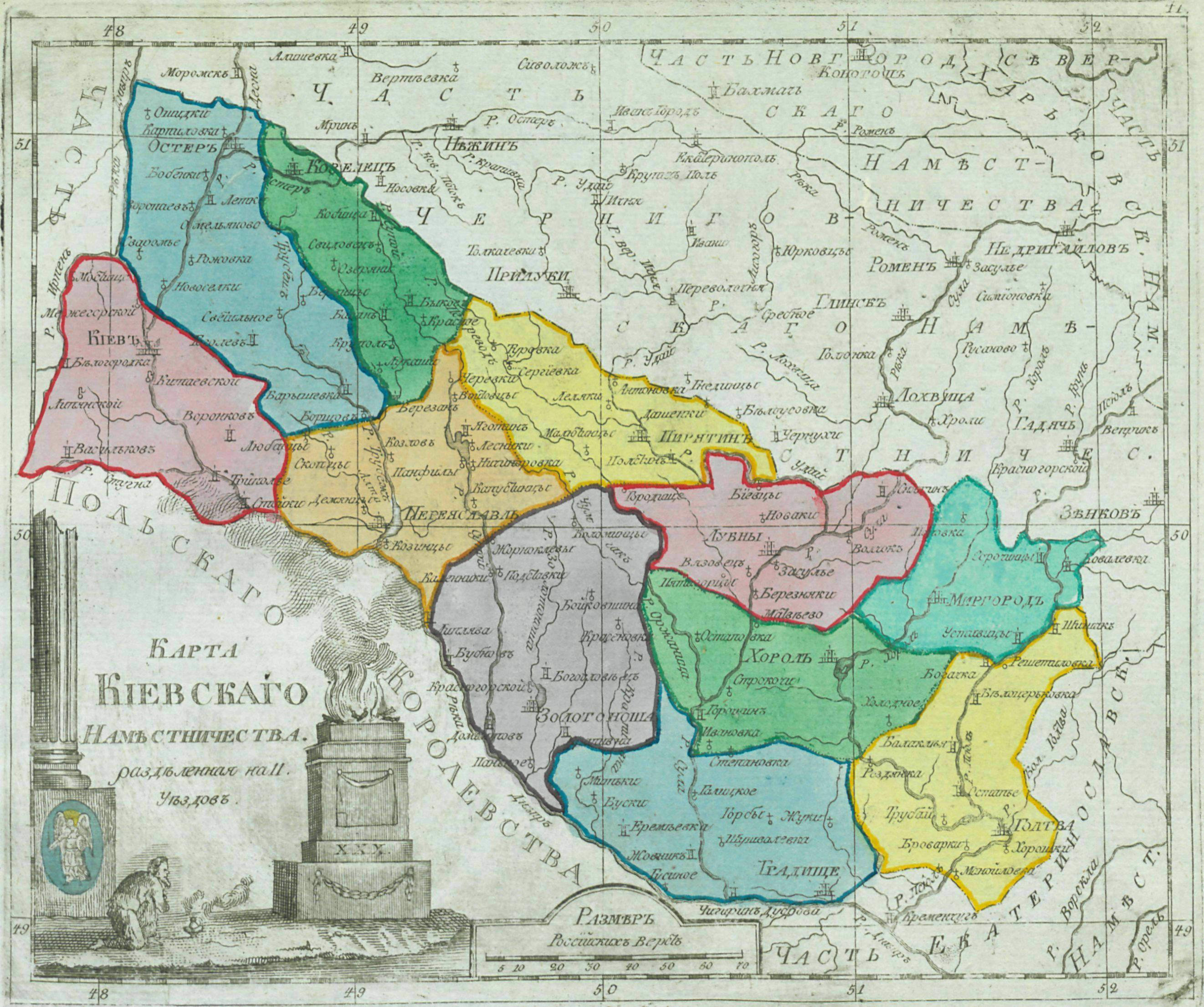 Small atlas of the Russian Empire (1792). Map of Kiev Namestnichestvo (map 40).